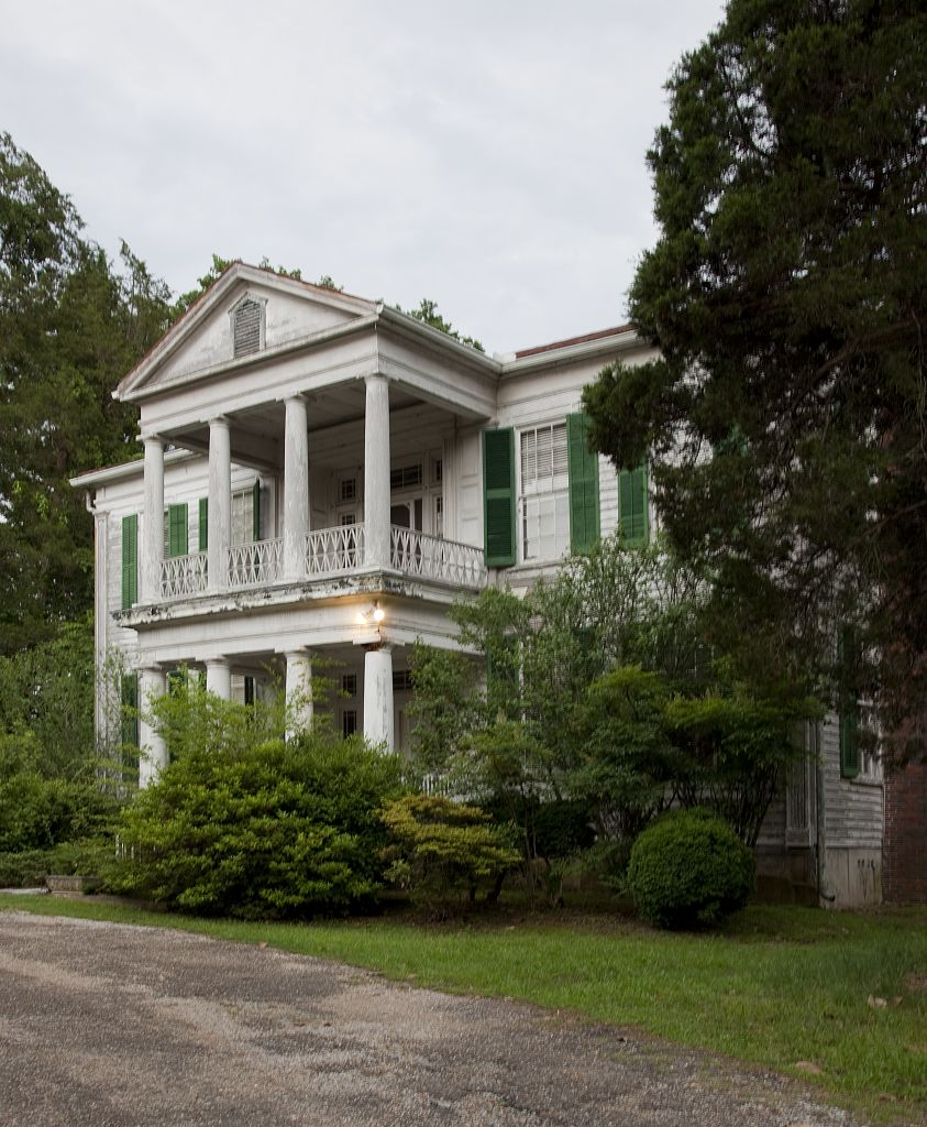 Glencairn Plantation, Greensboro, Alabama